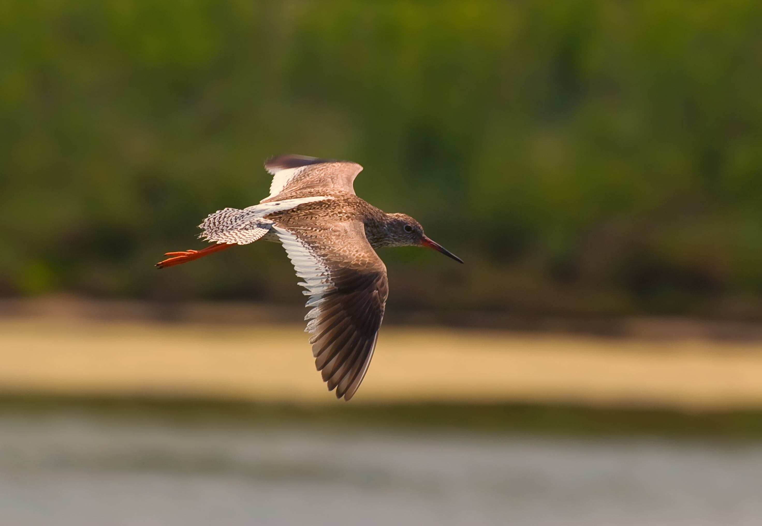 Common Redshank (Tringa totanus), Laguna di Venezia, Italy.